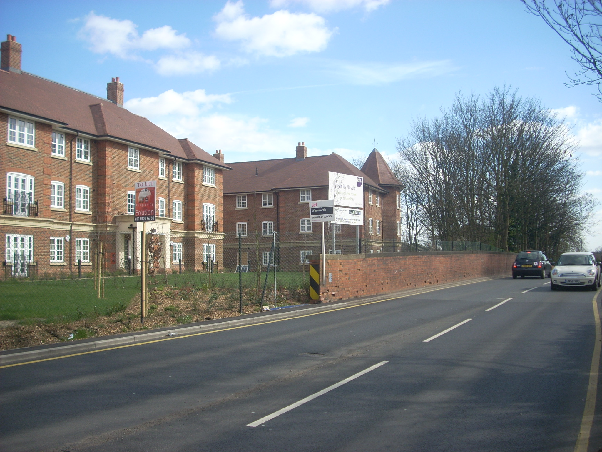 Site of the former Mill Hill (The Hale) railway station.